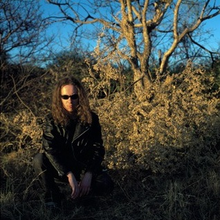 South African photographer Frank Marshall (taken by Rachelle Marshall)